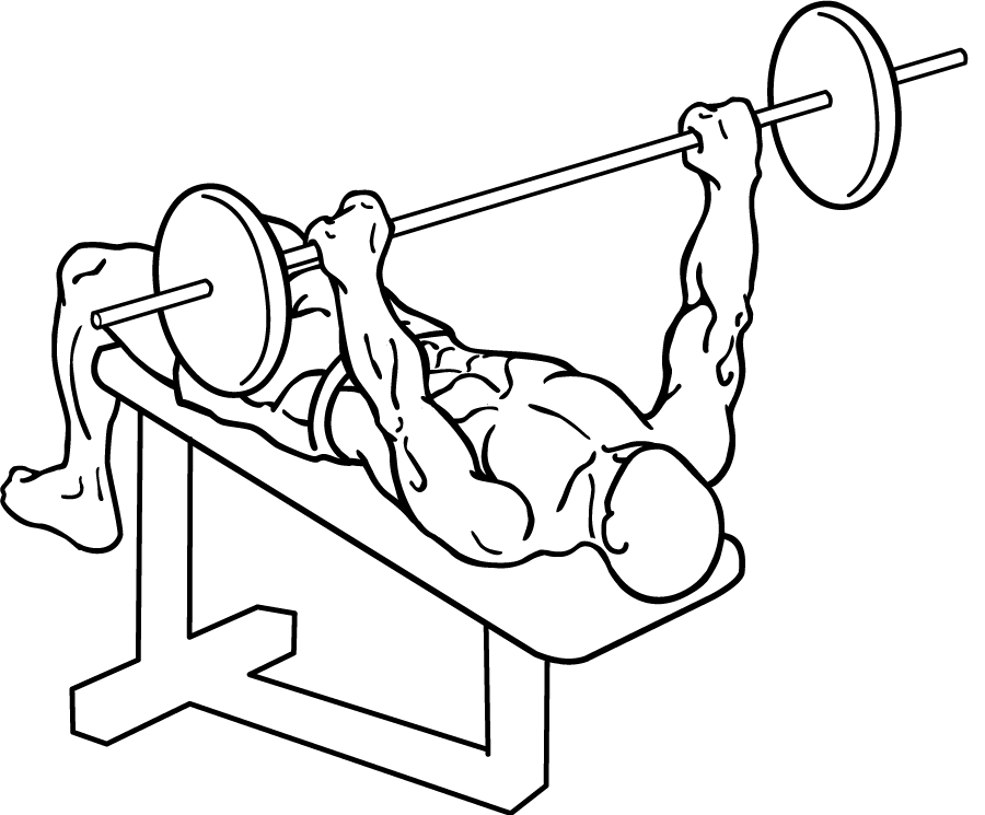 an exercise of chest